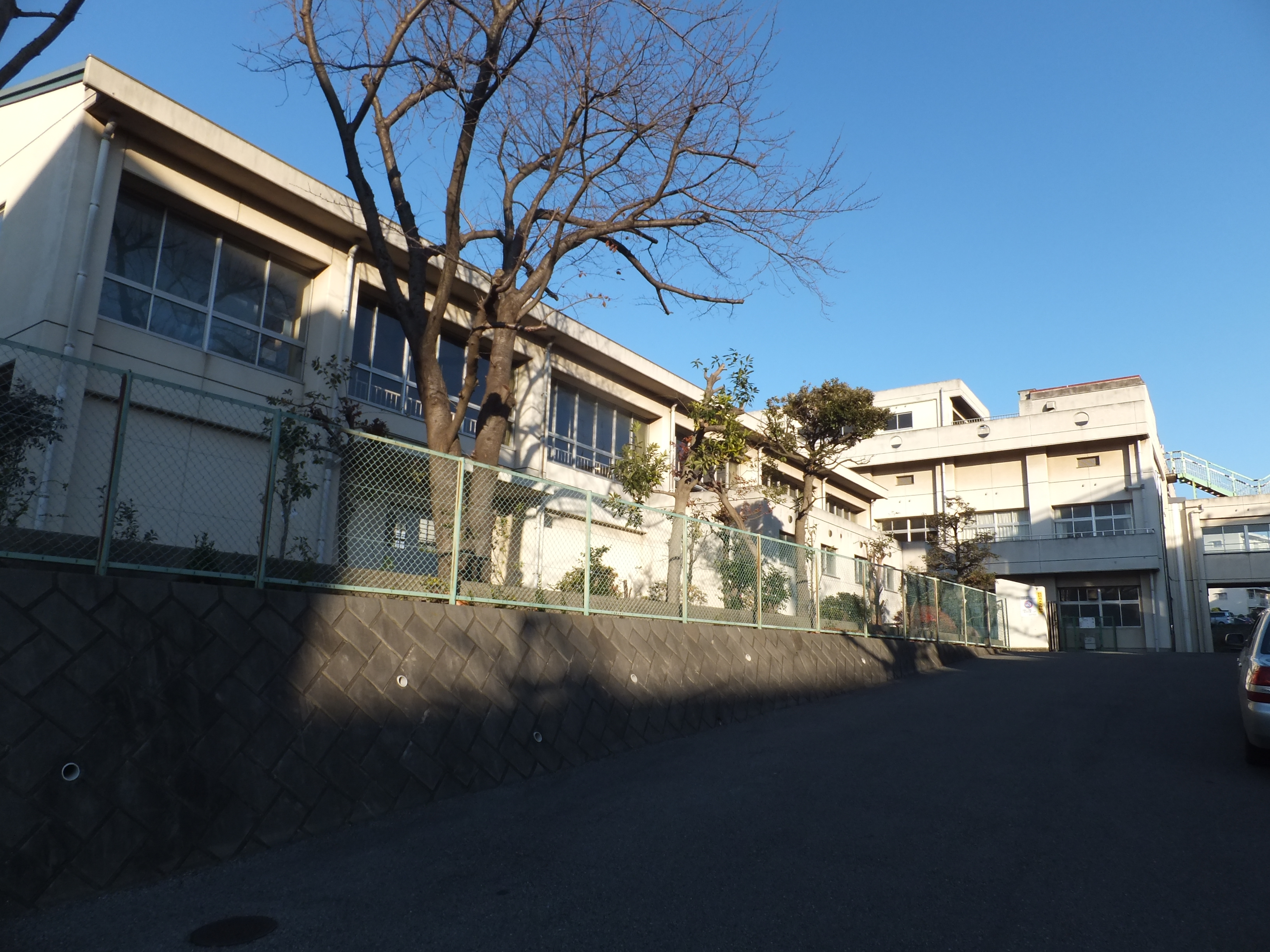 Chiba Municipal Asahigaoka Elementary School in Hanamigawa Ward, Chiba